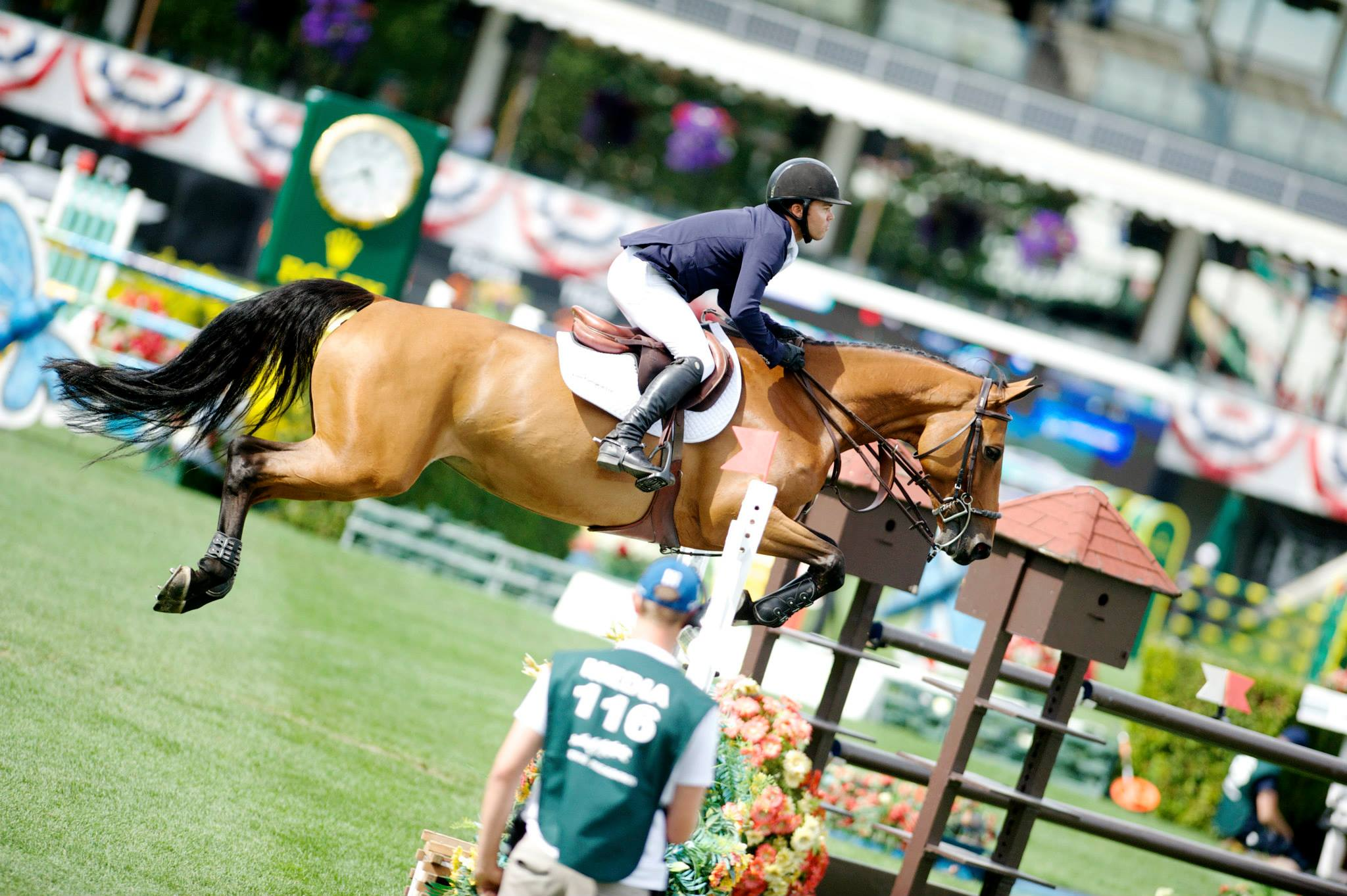 Gazelle - Spruce Meadows